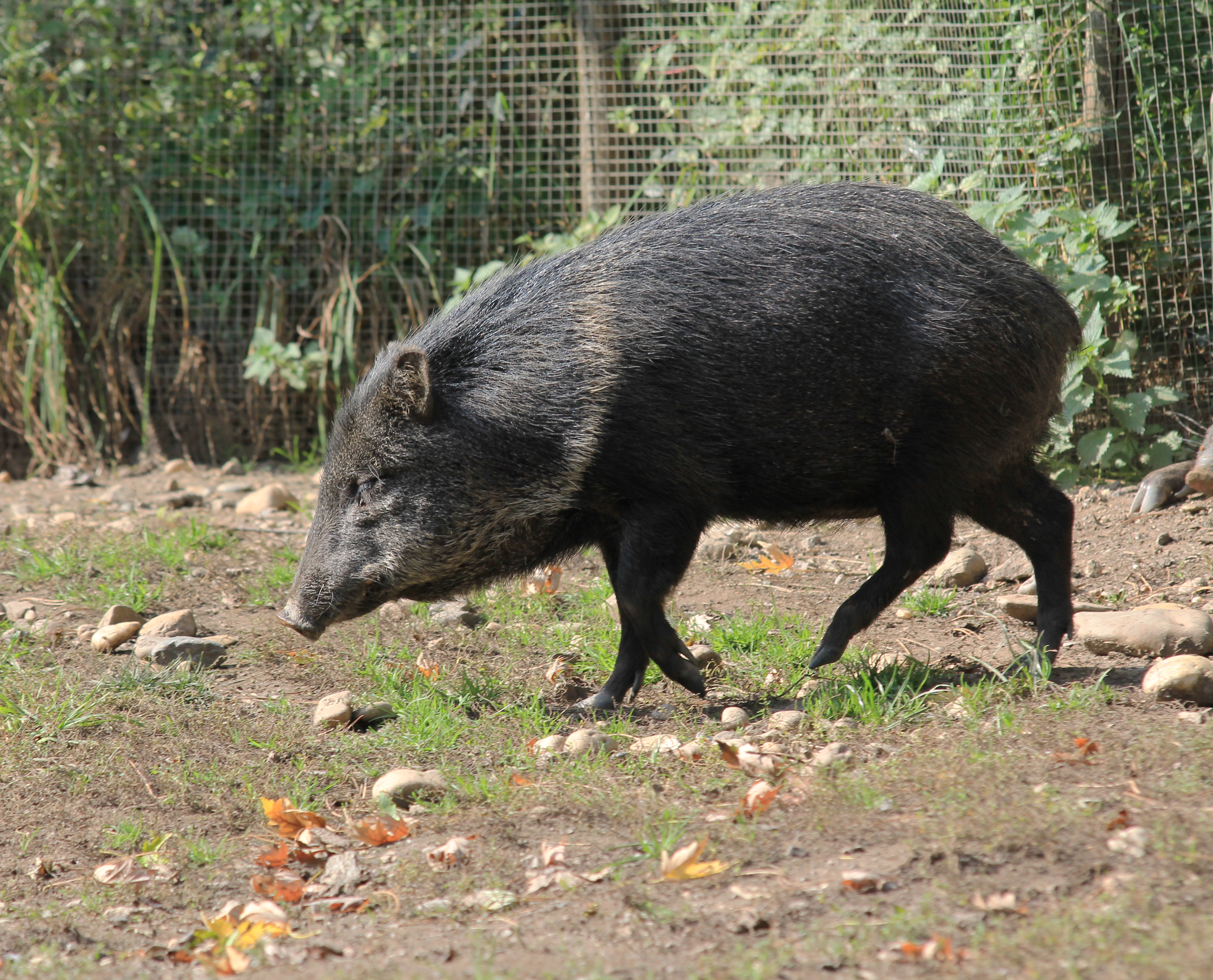 Collared peccary (Pecari tajacu) in Prague Zoo, Czech Republic